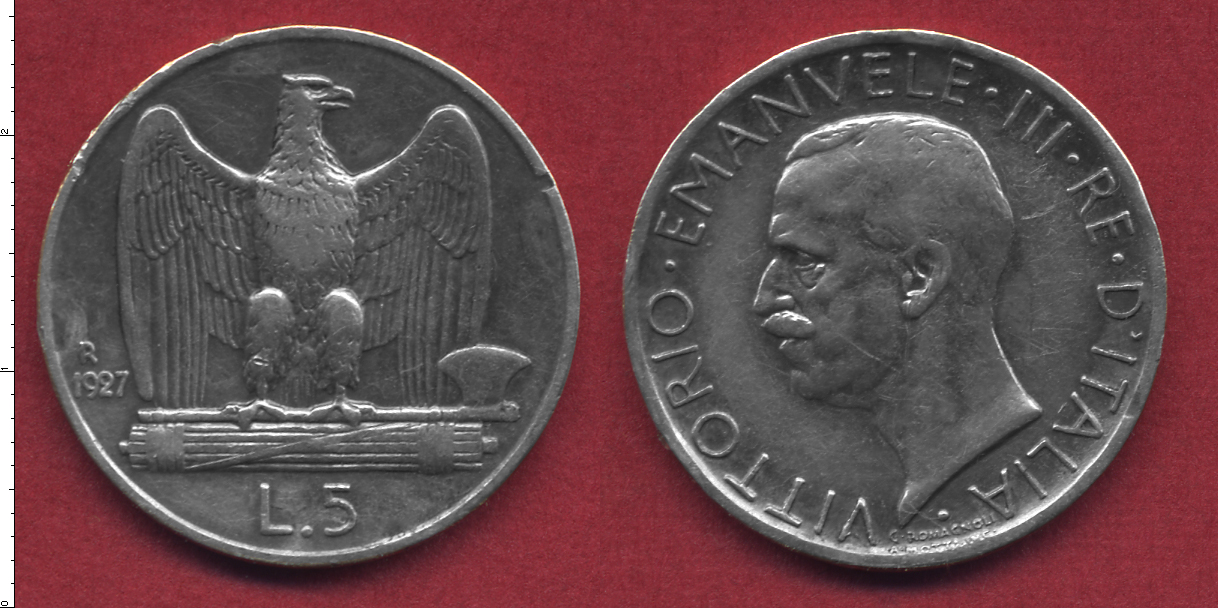 five lira of Kingdom of Italy, 1927